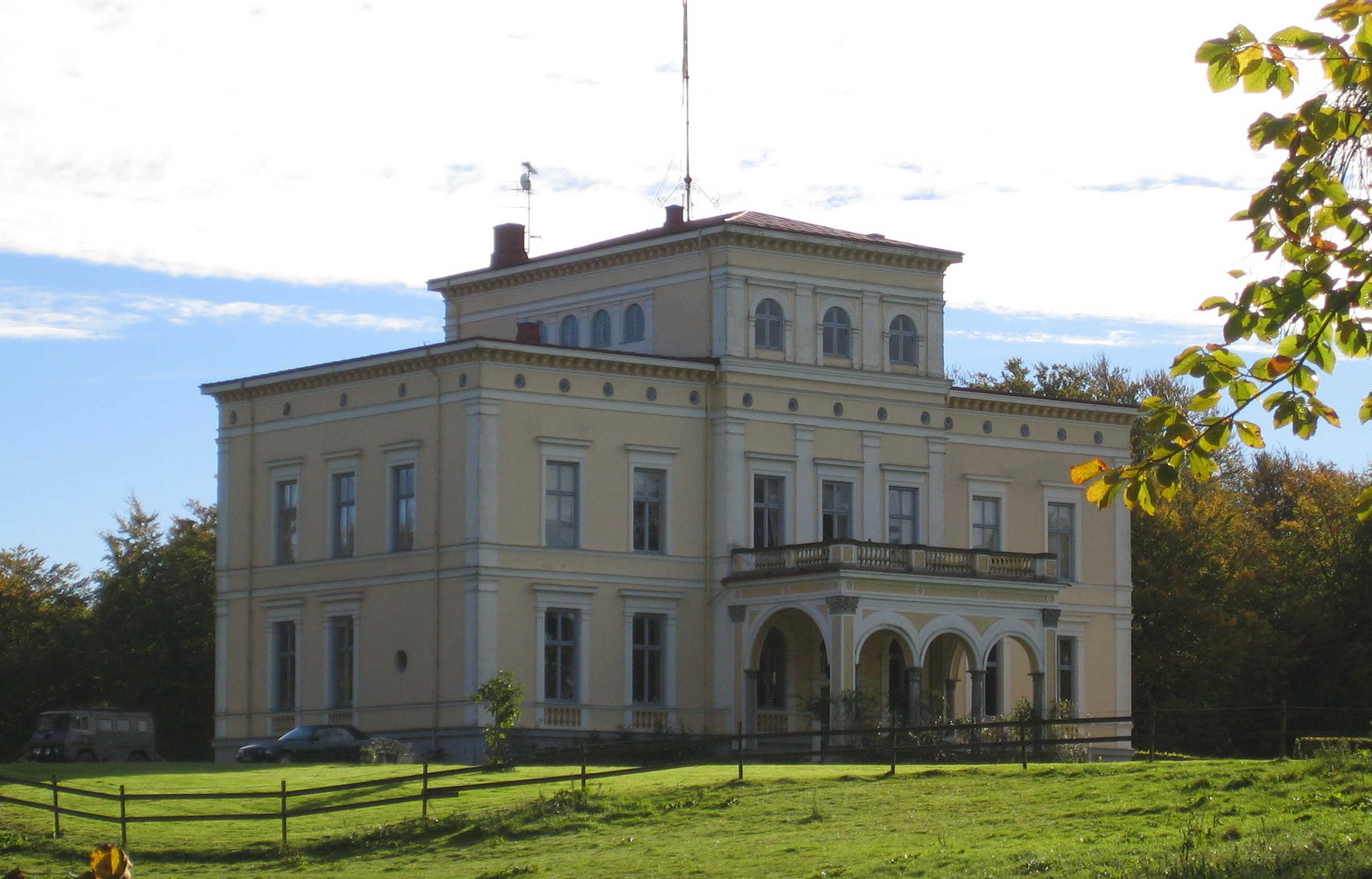 Swedish castle Bellinga, Skåne, Sweden.